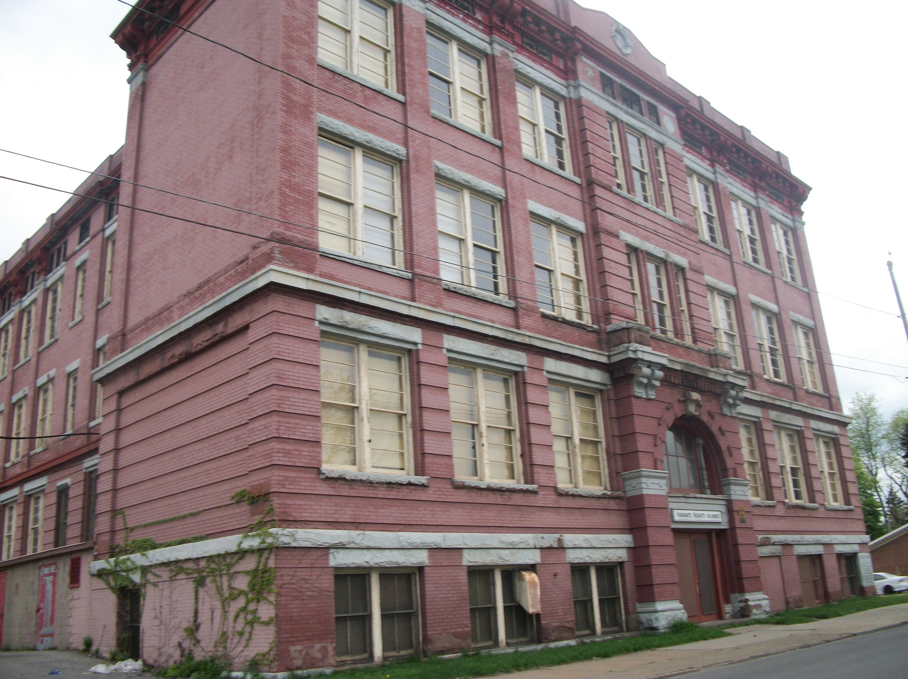 PS 24 775 Best Street Buffalo, NY 14211